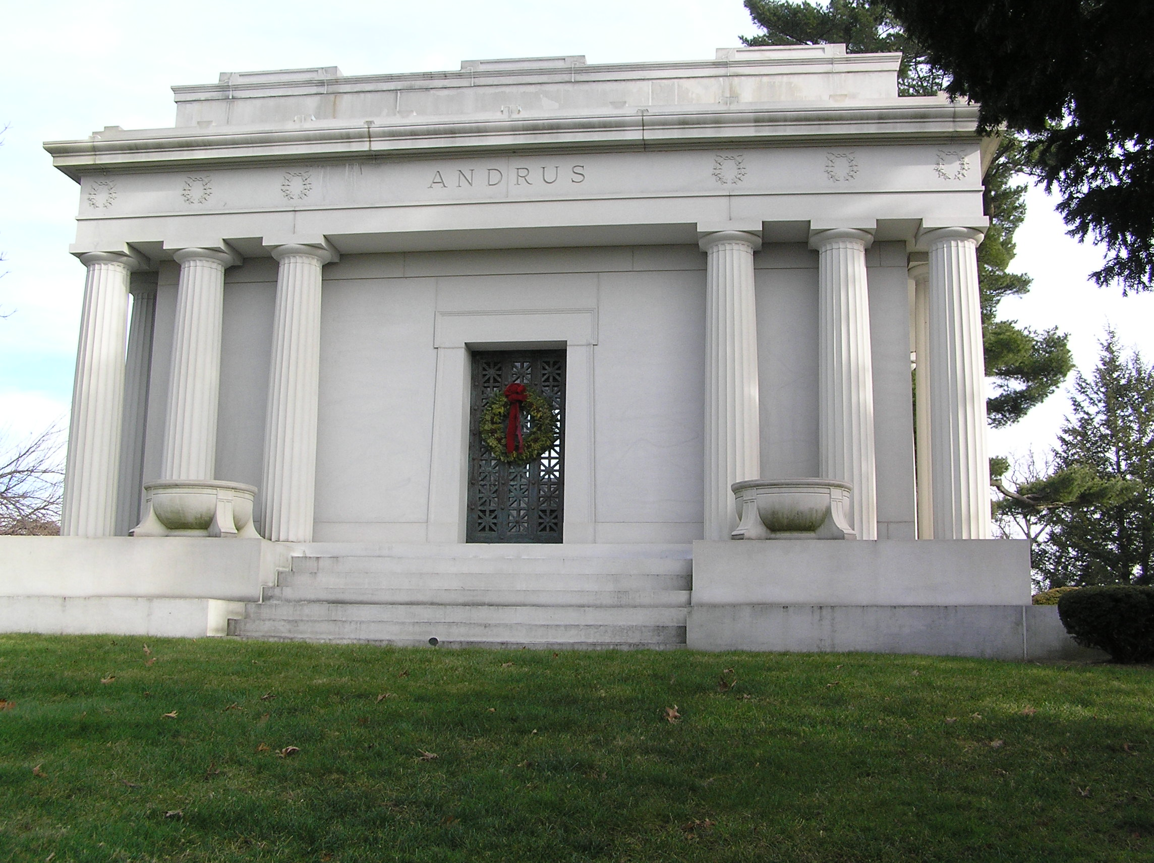 The mausoleum of John Emory Andrus in Kensico Cemetery